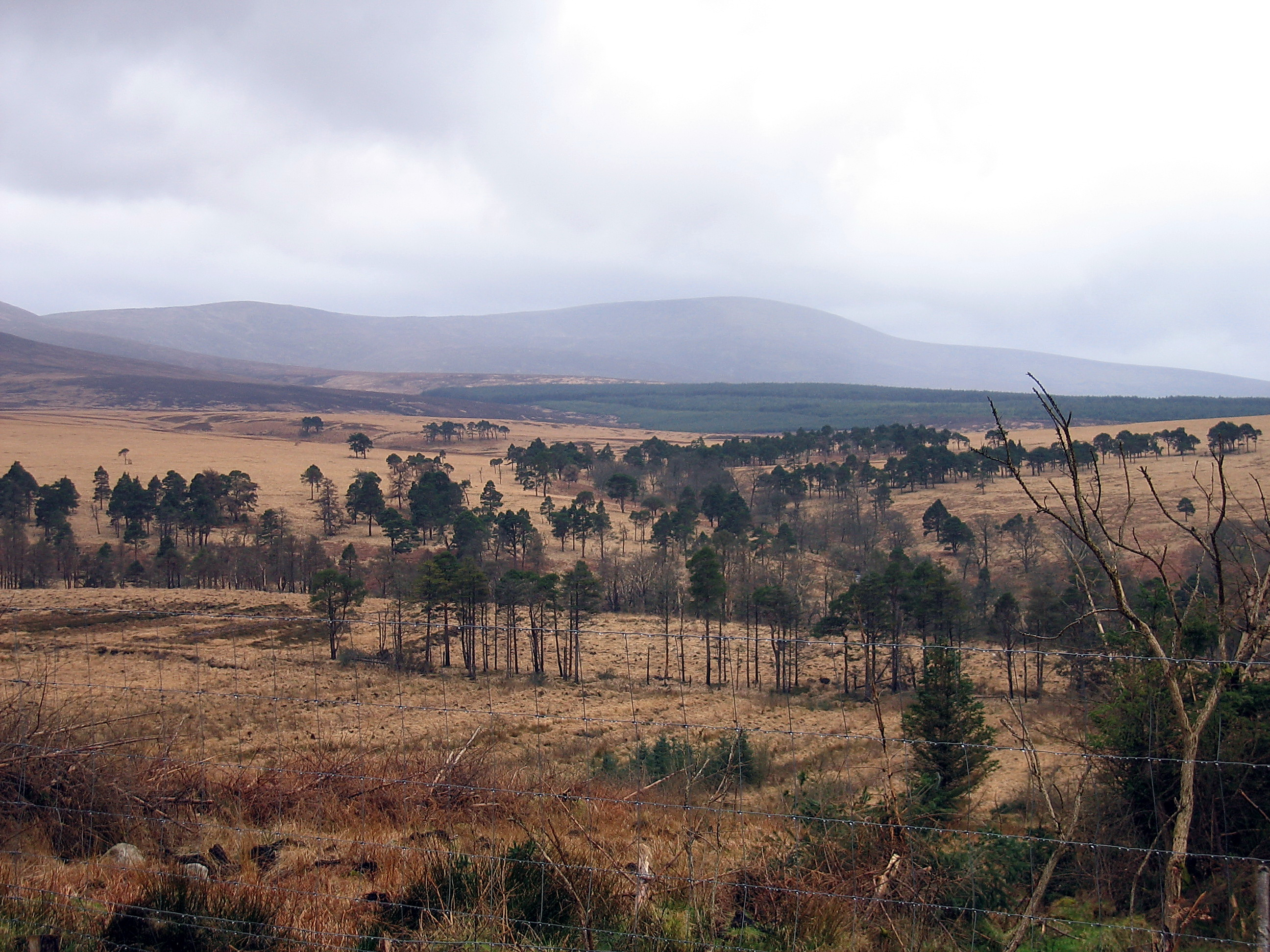 Mullaghcleevaun, in the Wicklow Mountains viewed from the R759 (looking south). The scattered Scots pine in the foreground are the remnants of the Coronation Plantation; the trees further back are more recently planted forests.